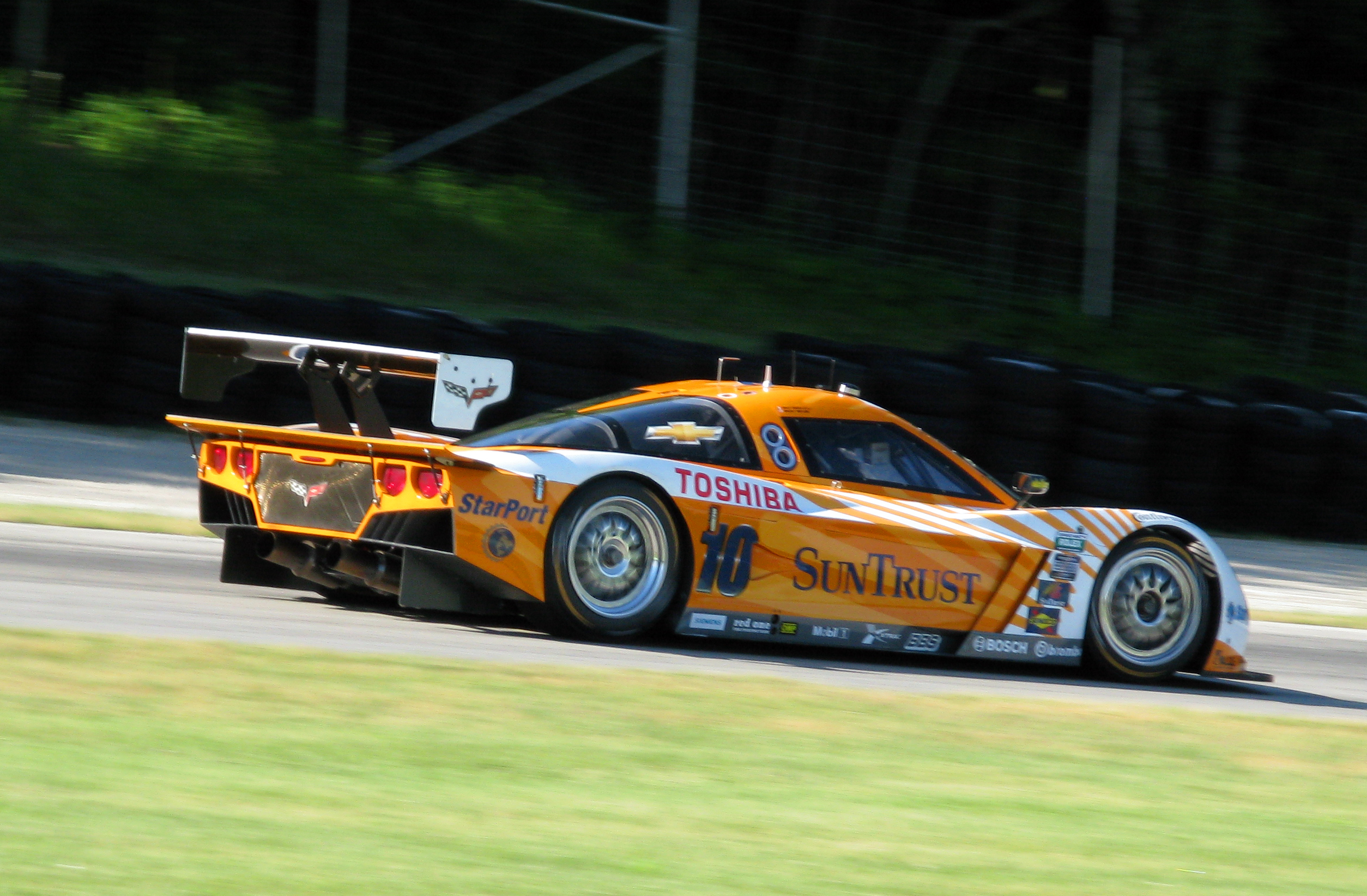 SunTrust #10 Grand-Am DP Corvette making its way through the Carousel at Road America in 2012.